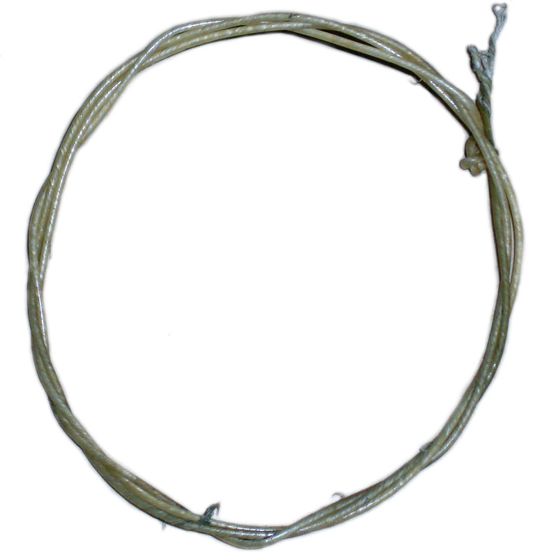 This is a photo of catgut, intended for the article about catgut.